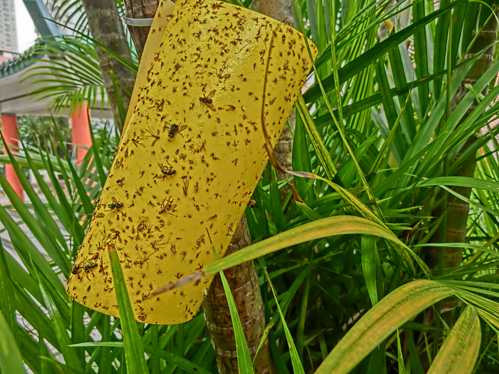 Hill Road Garden, Hill Road, 石塘咀, Shek Tong Tsui, Hong Kong